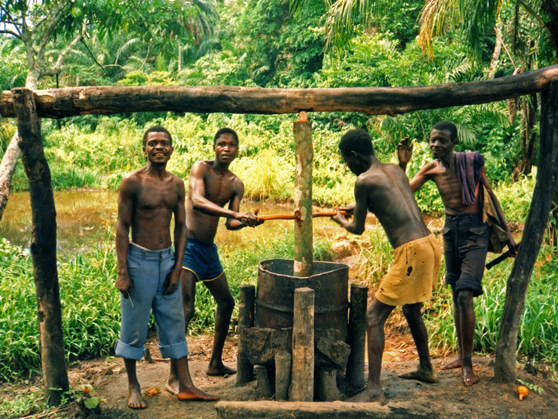 Palm nuts are boiled in a metal drum and then dumped into a "malaxeur" or press like the one here. The nuts are ground and the resulting oil comes out of holes in the bottom of the press. See Manga Village on Google Maps here